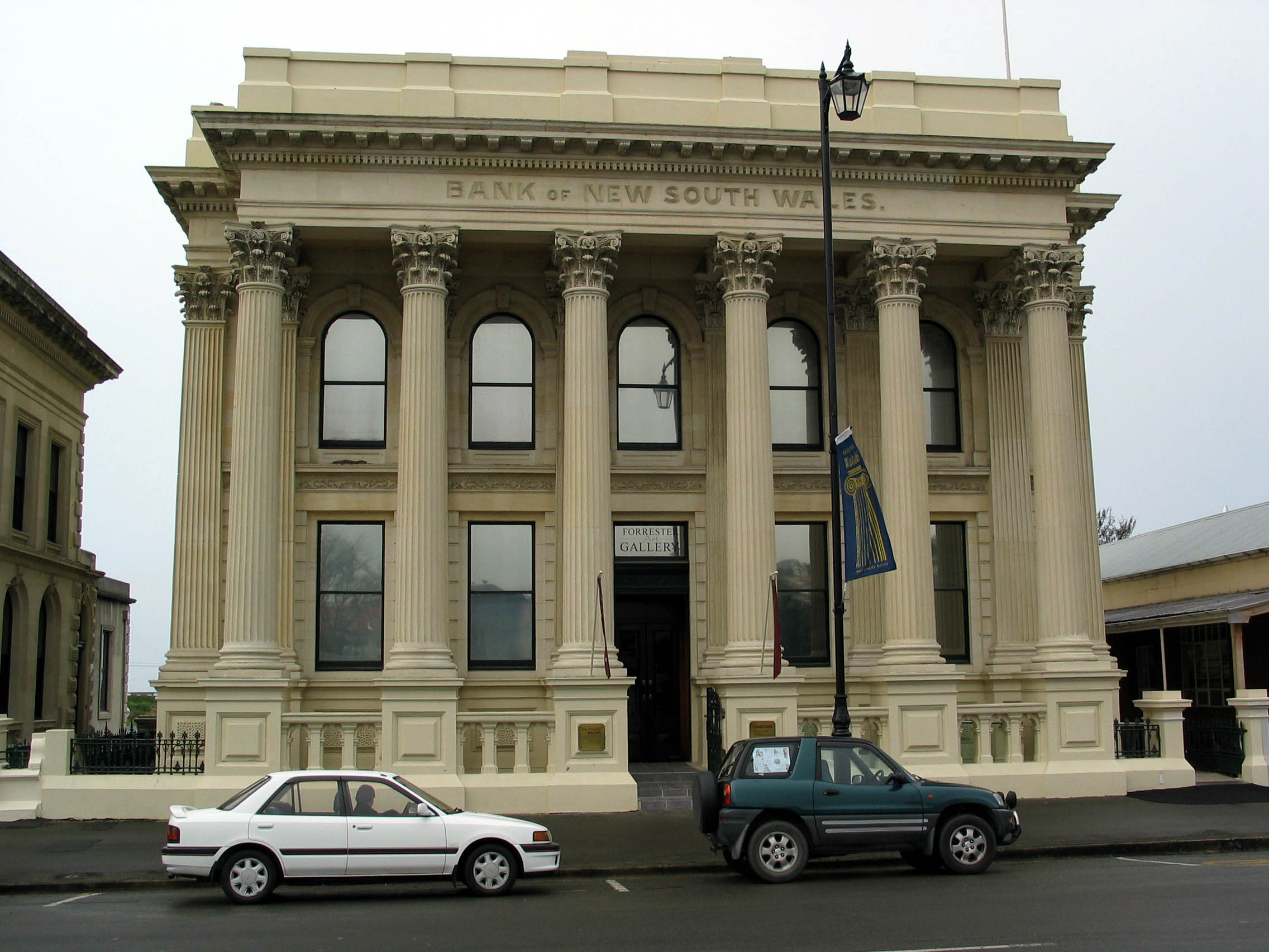 This is the former Bank of New South Wales, now the Forrester Gallery, in Oamaru, New Zealand. New Zealand Historic Places Trust Register number: 355